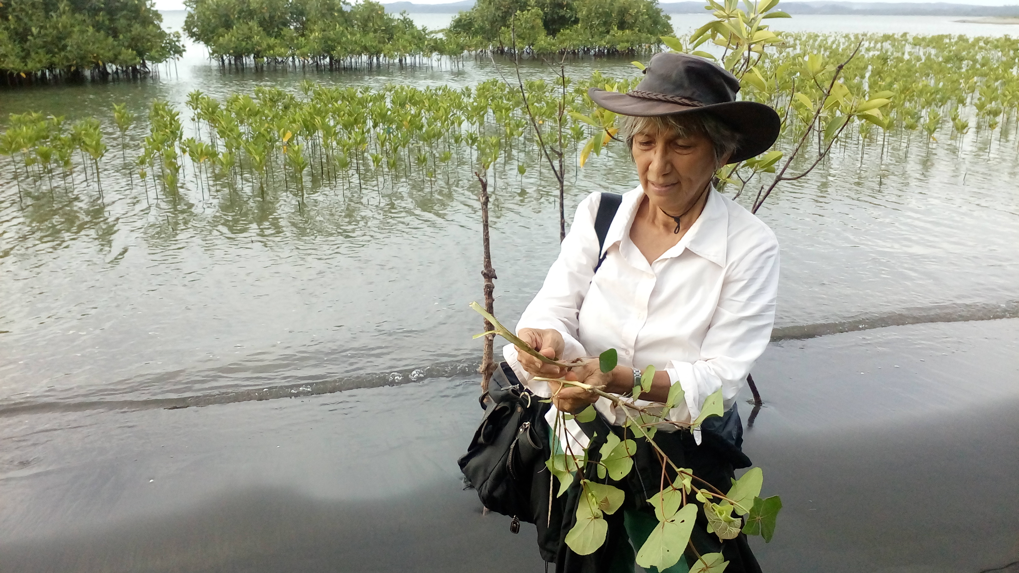 Dr. Primavera at Cagsao, Calabanga, Camarines Sur